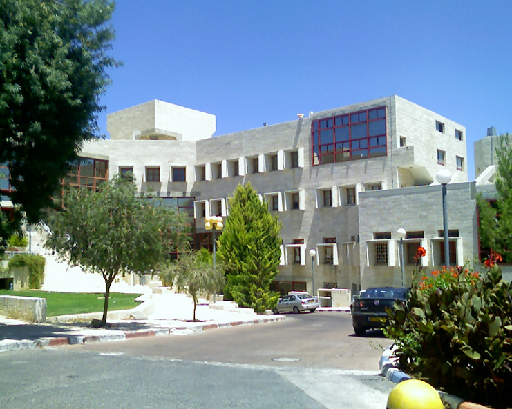 Bezalel Academy building on Scopus Mountain in Jerusalem, formerly in Bezalel street in the "Artists House".